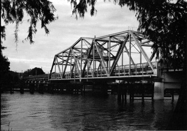 Lake Monroe Bridge : over the Saint Johns River. A Warren-type through truss swing bridge built in 1933 by Ingall's Iron Works of Birmingham, Alabama. Located between DeBary and Sanford, Florida, on U.S. Highway 17.